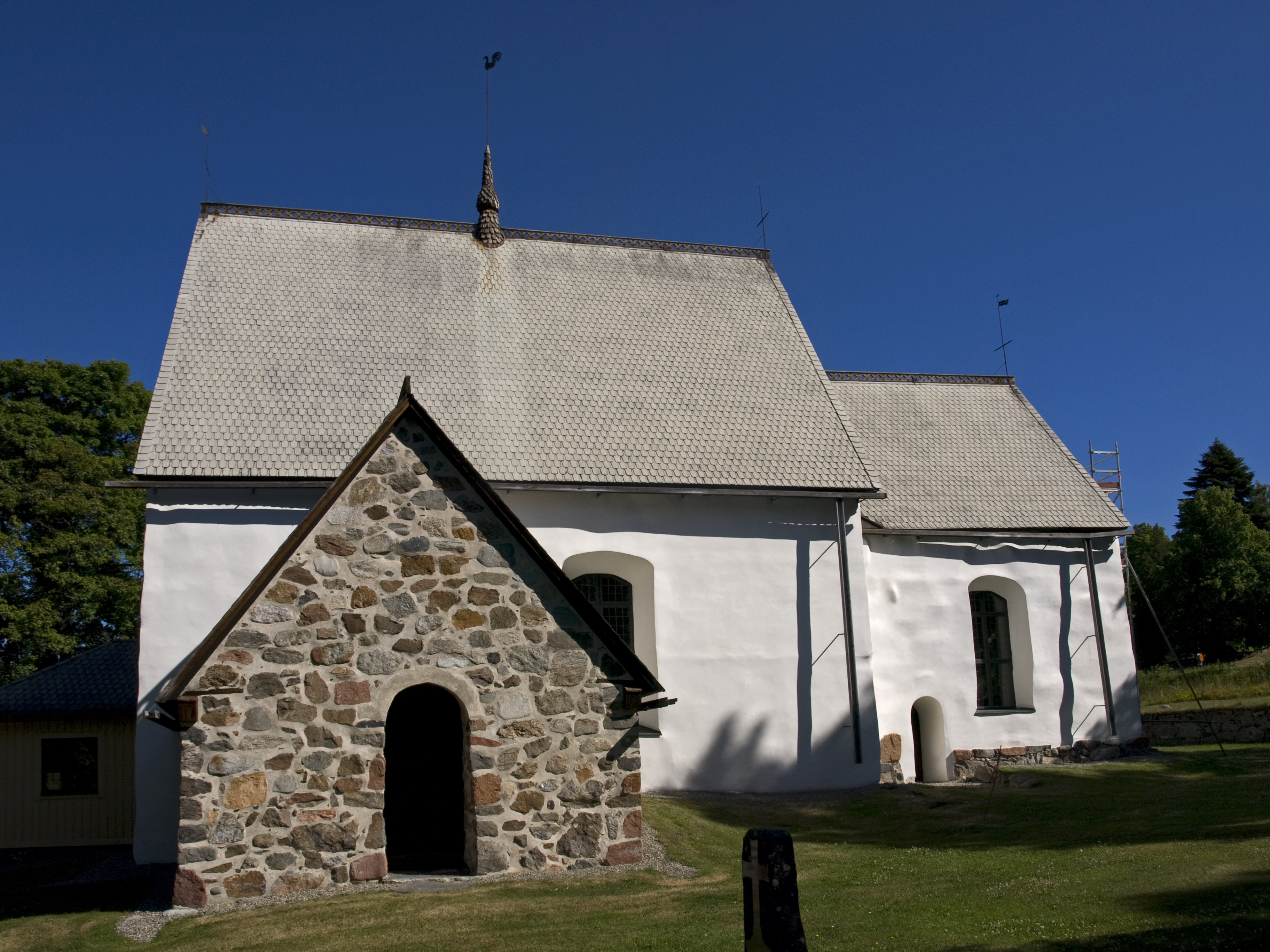 View of Alnö gamla kyrka